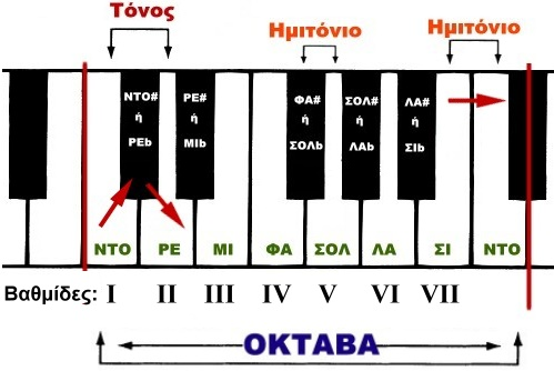 Scale (music)